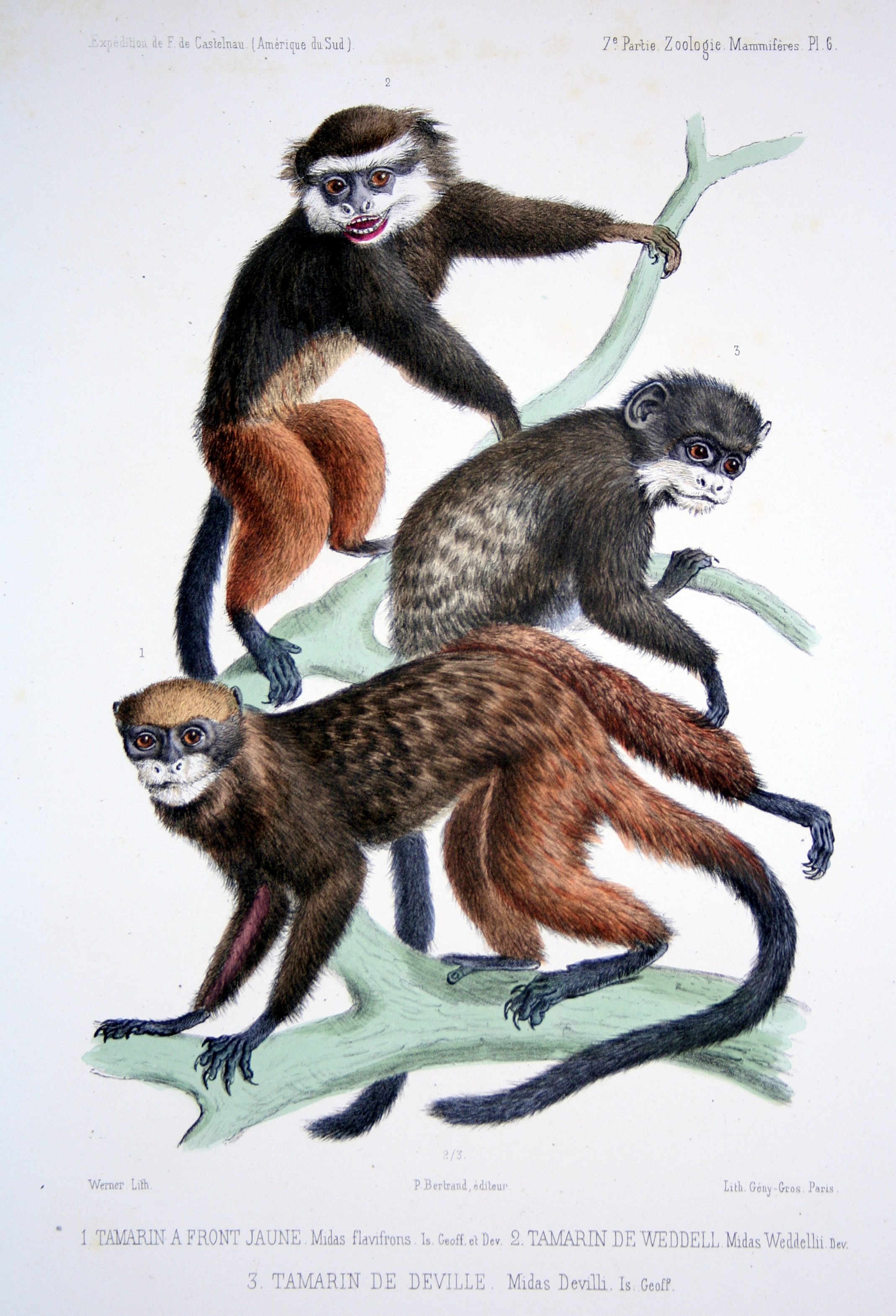 From top to bottom: Midas Weddellii Dev. = Saguinus fuscicollis weddelli (Deville, 1849) Midas Devilli Is. Geoff. = Saguinus fuscicollis illigeri (Pucheran, 1845) Midas flavifrons Is. Geoff. et Dev. = Saguinus fuscicollis nigrifrons (I.Geoffroy, 1850)